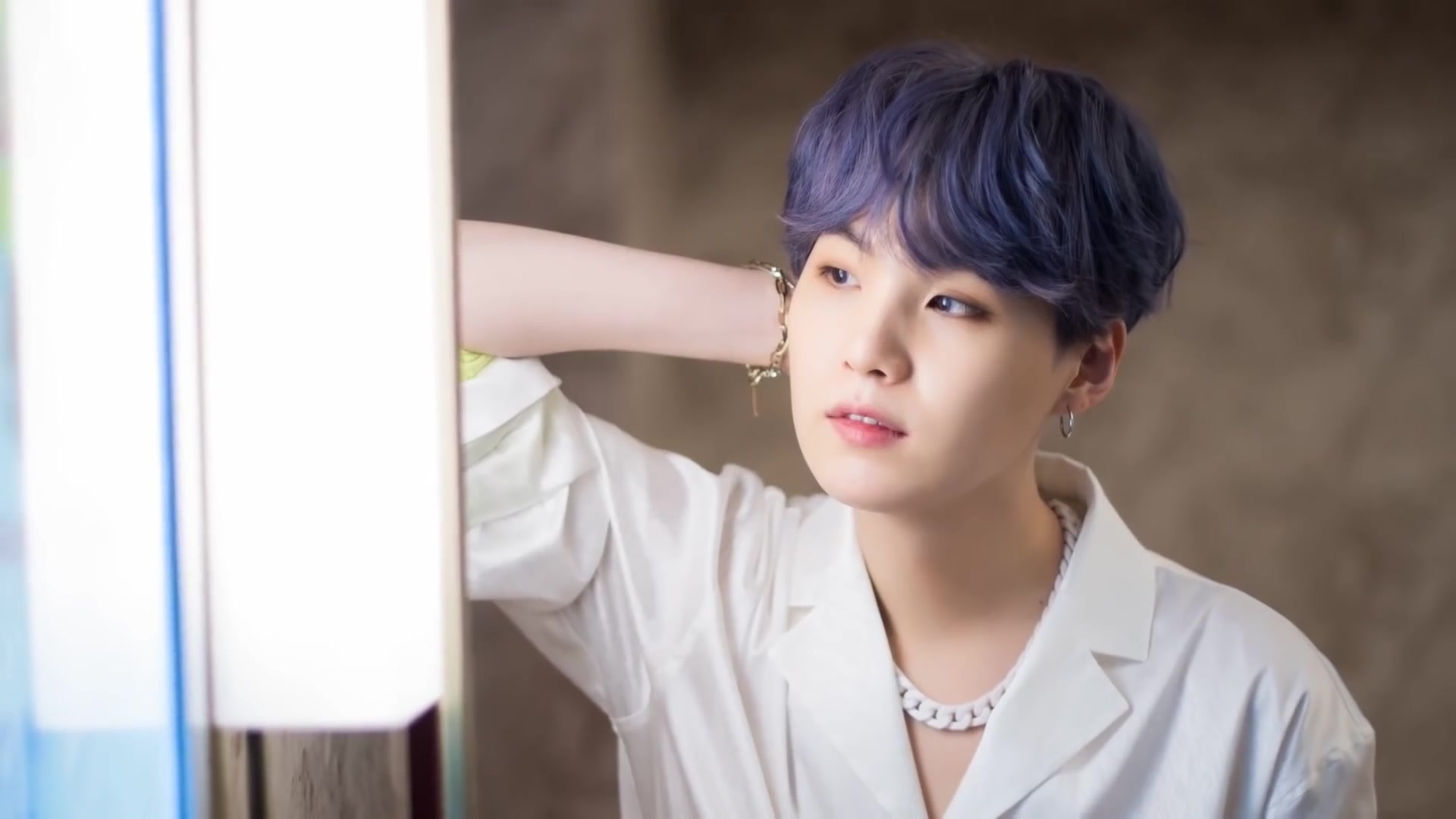 Suga for Dispatch "Boy With Luv" MV behind the scene shooting, 15 March 2019